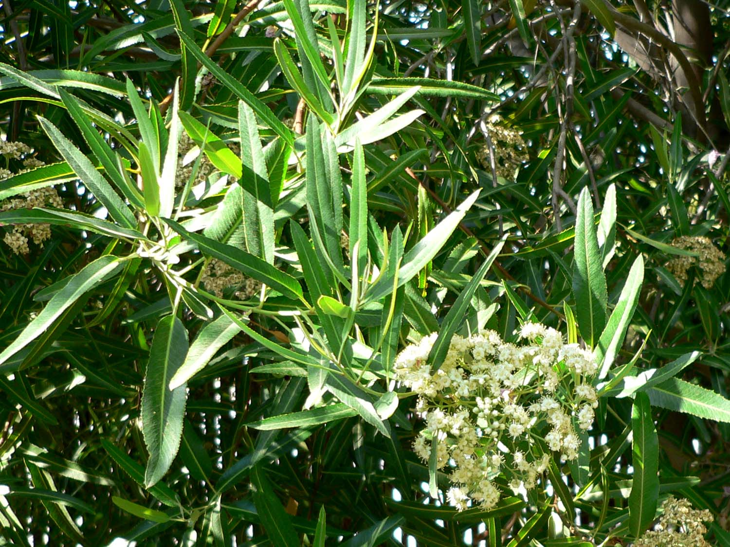 Photo of Vauquelinia californica (Arizona rosewood) at the Springs Preserve garden in Las Vegas, Nevada